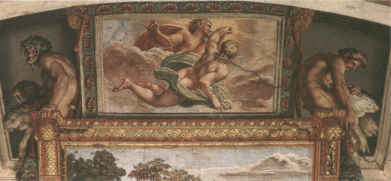 Hyacinth_Borne_to_the_Heavens_by_Apollo_with_satyrs_-_Annibale_Carracci_-_1597_-_Farnese_Gallery,__Rome